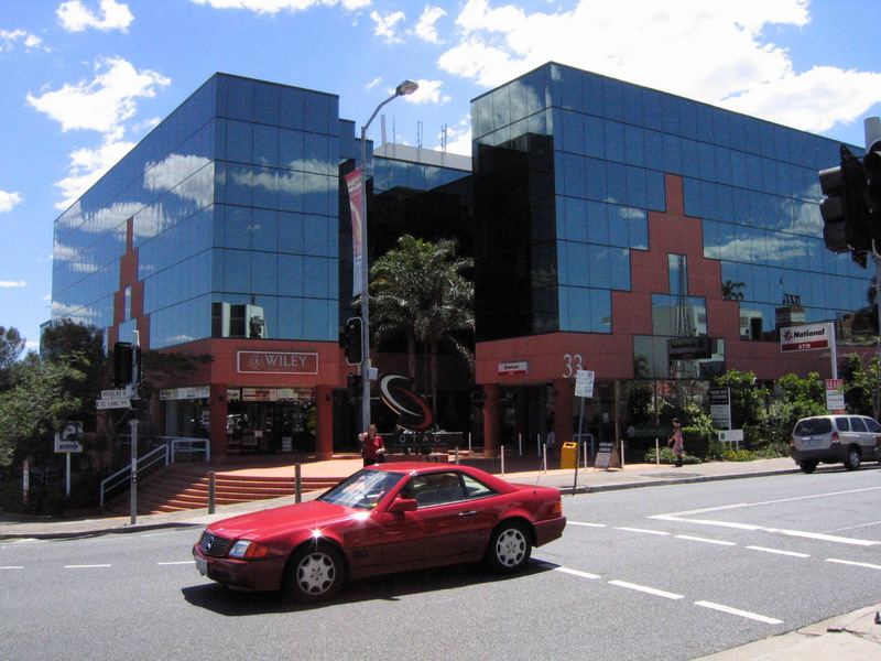 APNIC office building in Brisbane, Queensland, Australia, version 2